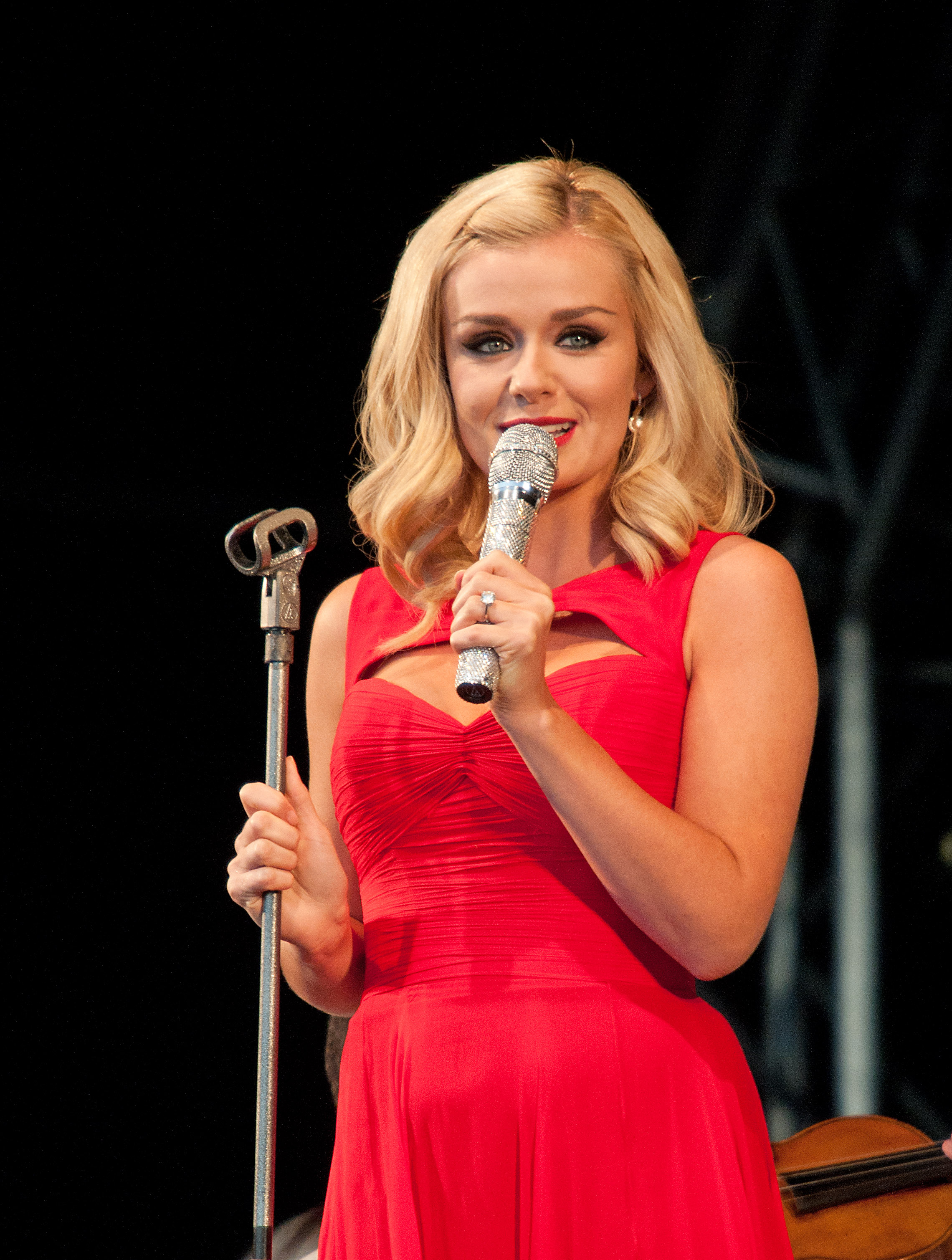 Katherine Jenkins live at Clumber Park in August 2011.